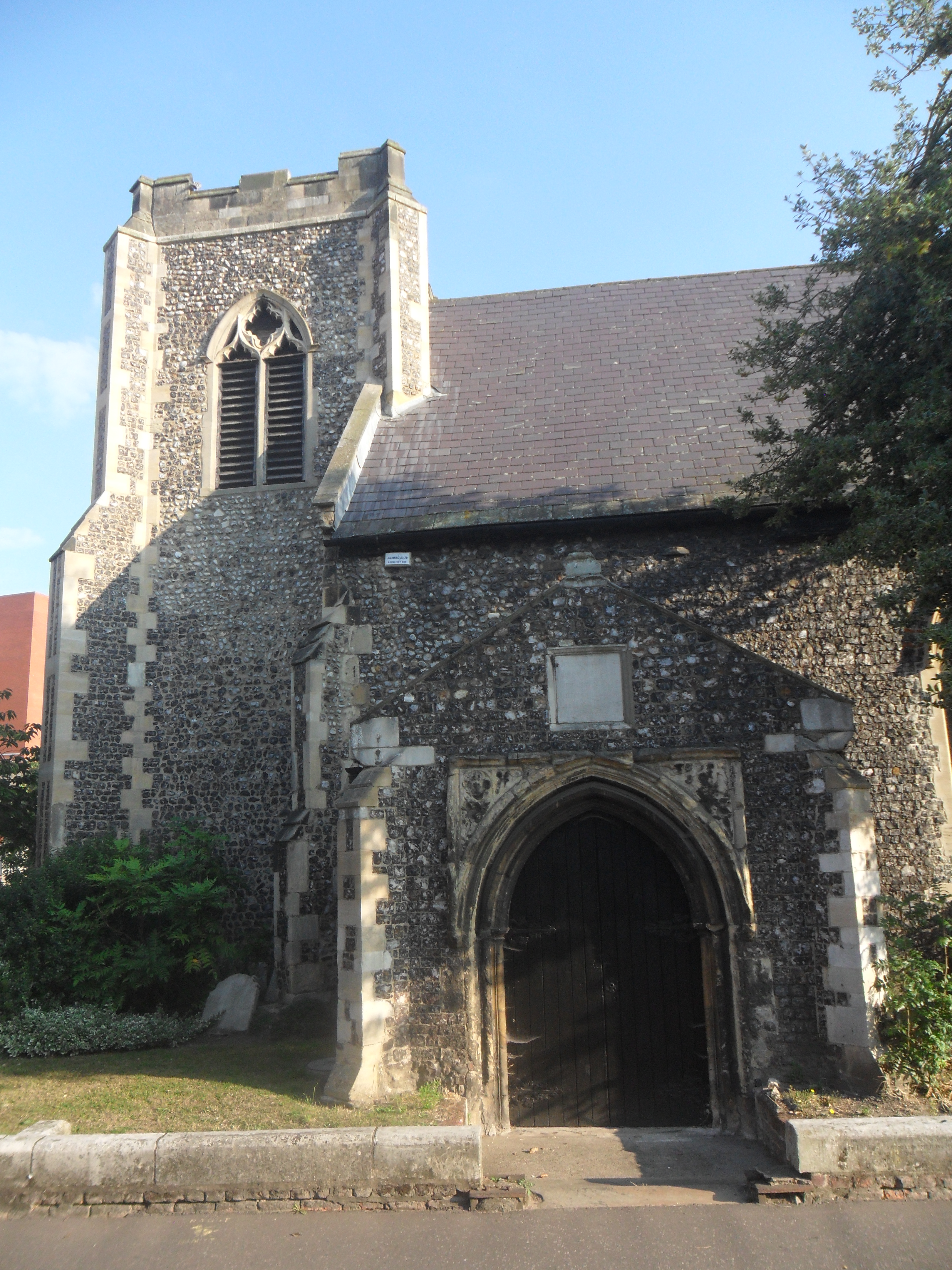 South porch and west tower of the former parish church of St Saviour, St Saviour's Lane, Norwich, seen from the south